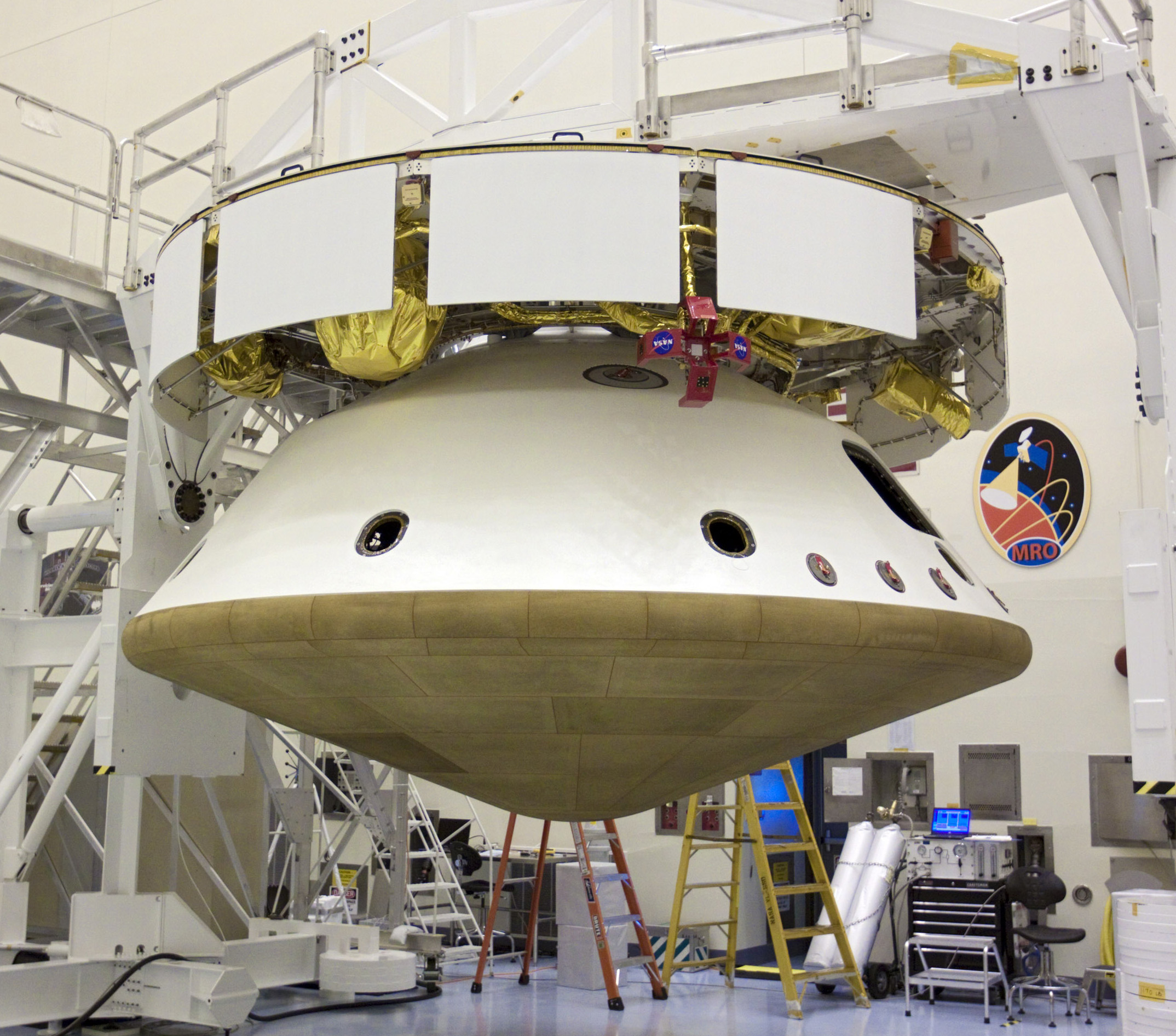 CAPE CANAVERAL, Fla. – In the Payload Hazardous Servicing Facility at NASA’s Kennedy Space Center in Florida, all elements of NASA's Mars Science Laboratory (MSL) mission have come together. The top portion is the cruise stage, next, the aeroshell, (containing the compact car-sized rover Curiosity), and on the bottom, the heat shield. The rover Curiosity has 10 science instruments designed to search for evidence on whether Mars has had environments favorable to microbial life, including chemical ingredients for life. The unique rover will use a laser to look inside rocks and release its gasses so that the rover’s spectrometer can analyze and send the data back to Earth. Launch of MSL aboard a United Launch Alliance Atlas V rocket is scheduled for Nov. 25 from Space Launch Complex 41 on Cape Canaveral Air Force Station in Florida. For more information, visit